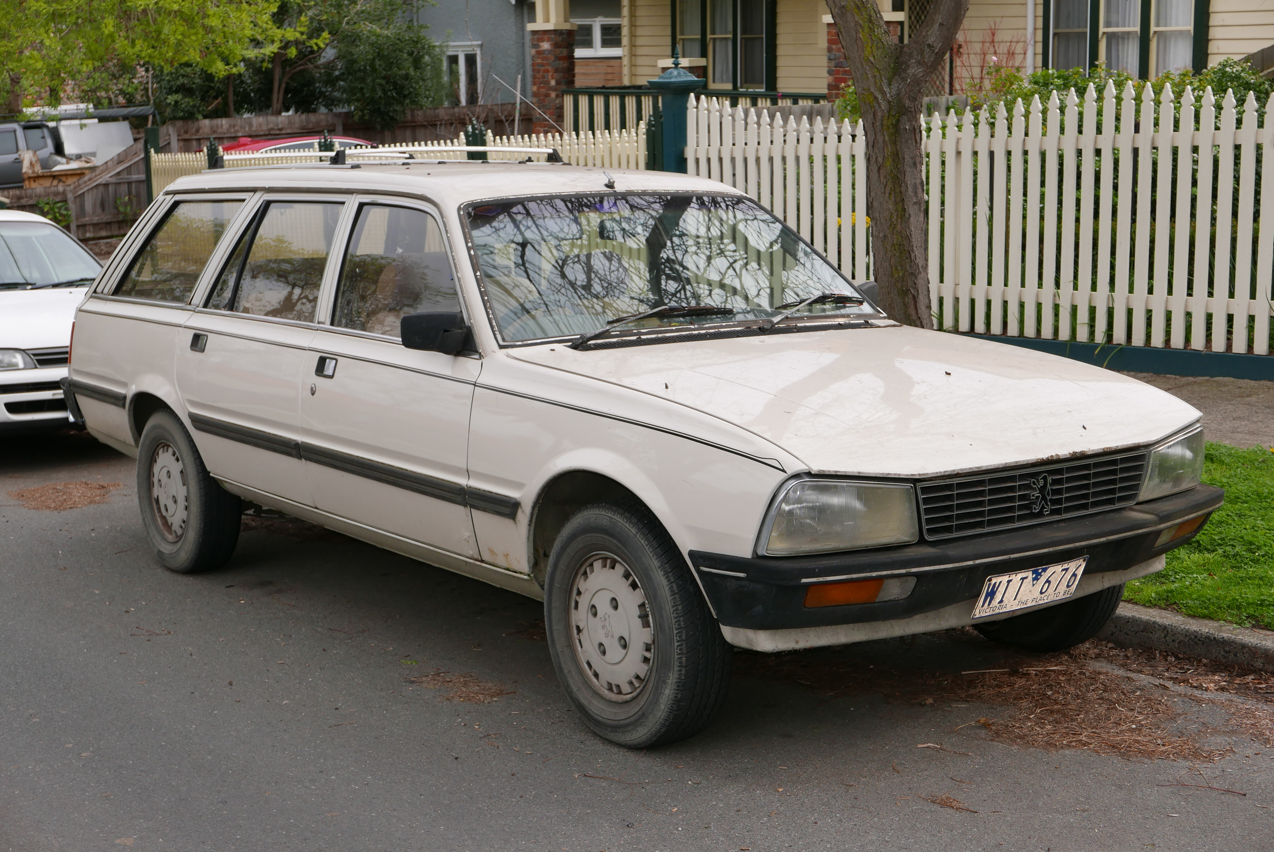 1984 Peugeot 505 SR station wagon. Photographed in Ivanhoe, Victoria, Australia. Vehicle registration enquiry results Jurisdiction Victoria Registration WIT676 Chassis code Not available Engine code X1723603X Compliance date Not available Year of manufacture 1984